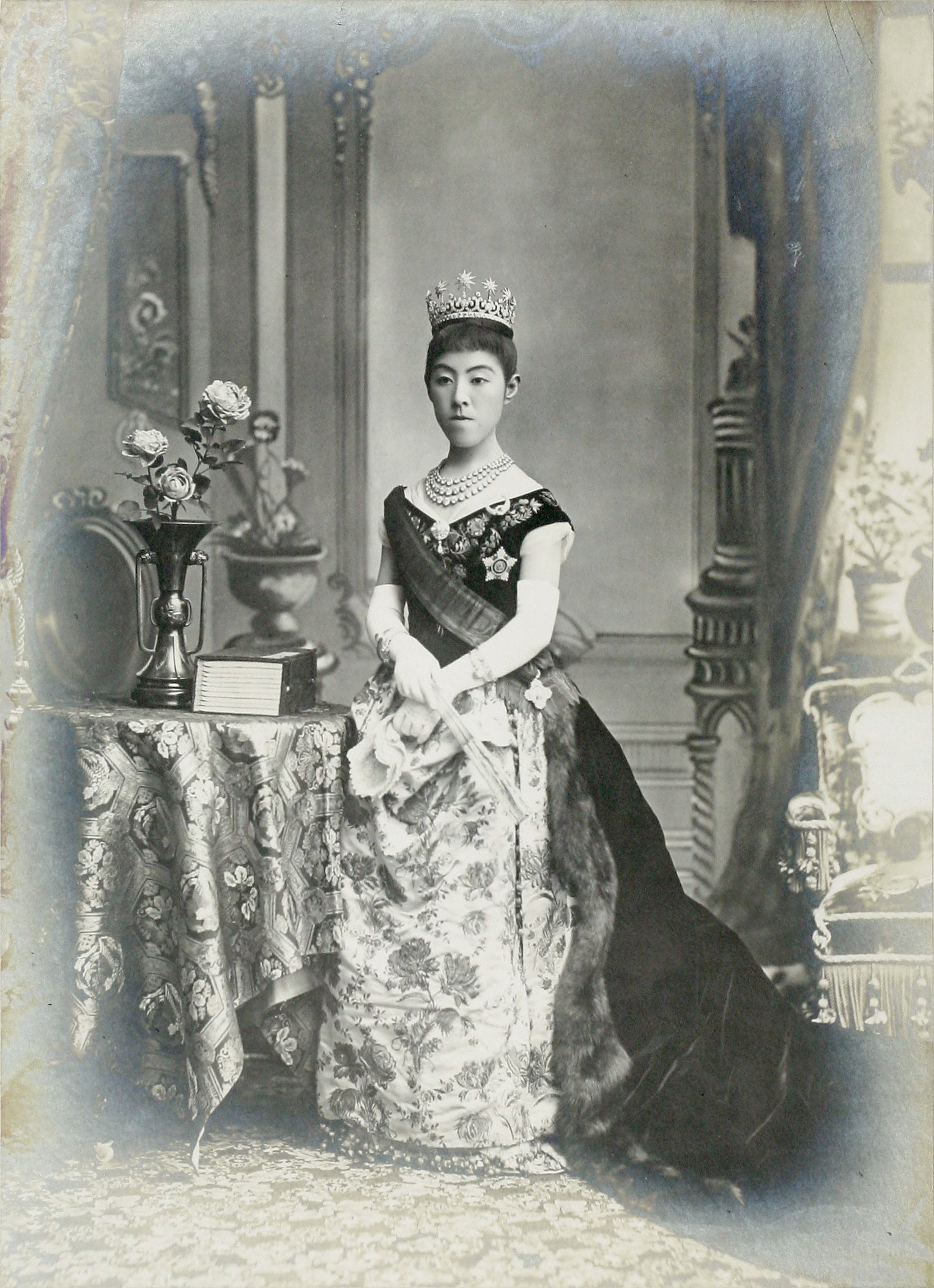 Empress Shōken (Haruko) (1849-1914) in Western garb, a sign of the reform taken under the Meiji era (1868- 1912)